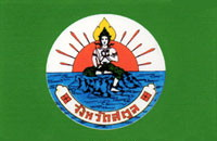 Flag of Satun Province